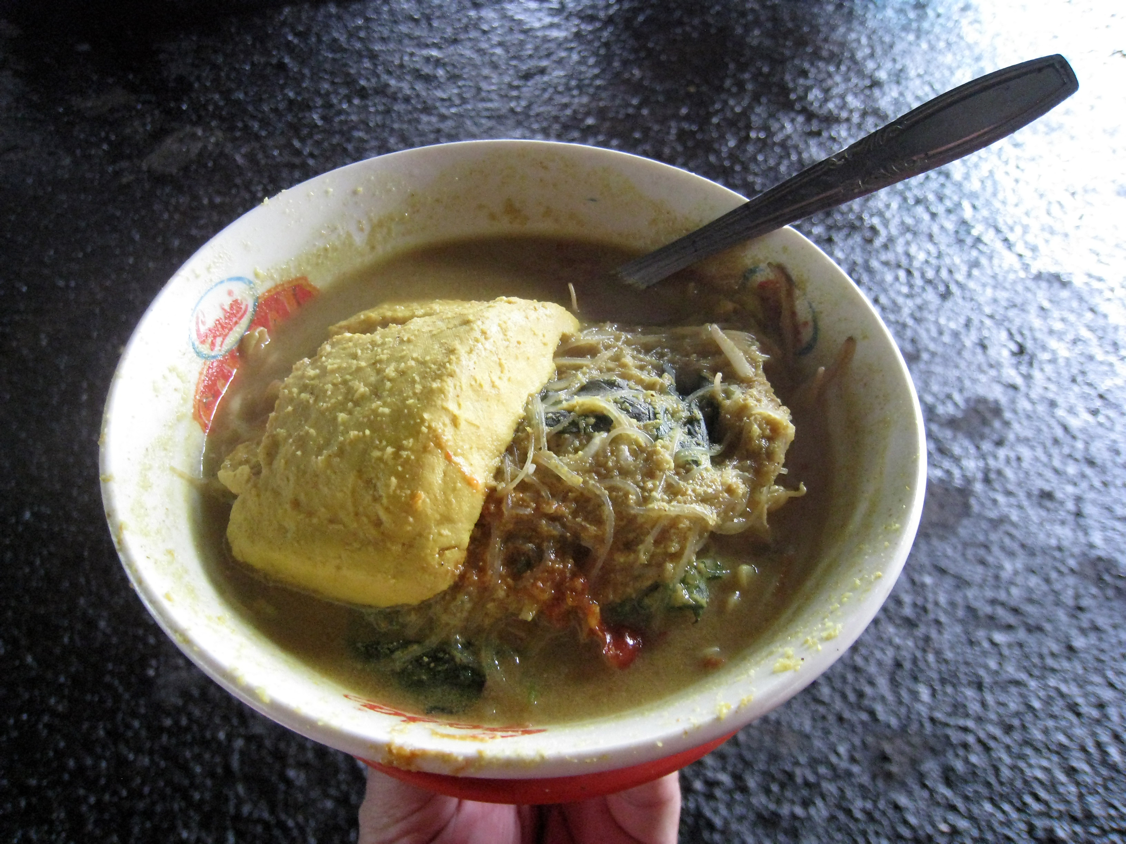 A travelling cart vendor selling Laksa Bogor, a laksa variant from Bogor, West Java, Indonesia. The boiling hot thick yellow soup is run and drain through the bowl contains rice vermicelli, oncom, tofu, ketupat, bean sprouts and lemon basil leaves for several times to make them cooked. The yellow lump is yellow tofu (tofu colored with turmeric).